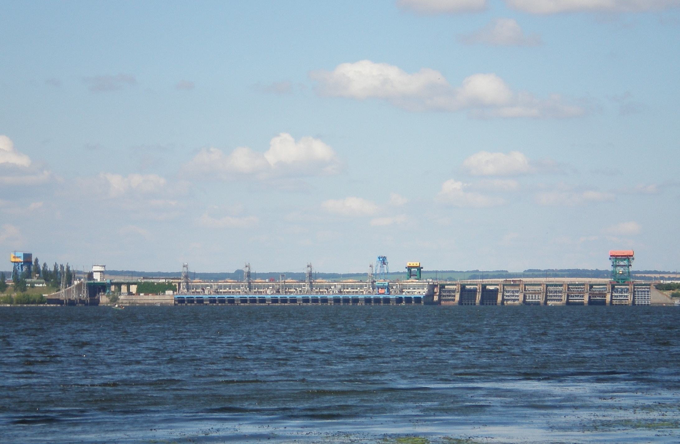 Hydroelectric power plant, Dniprodzerzhynsk